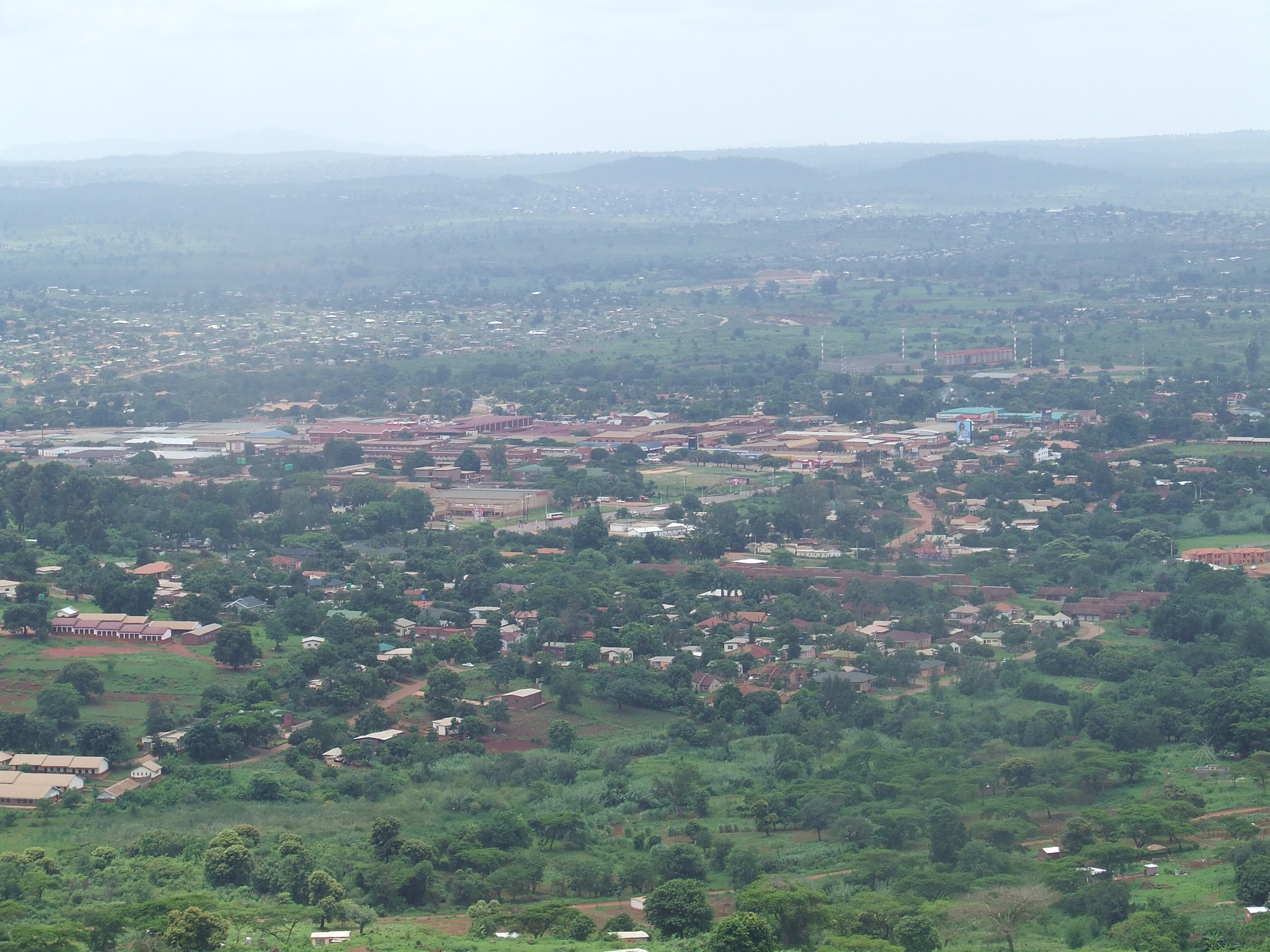 Thohoyandou